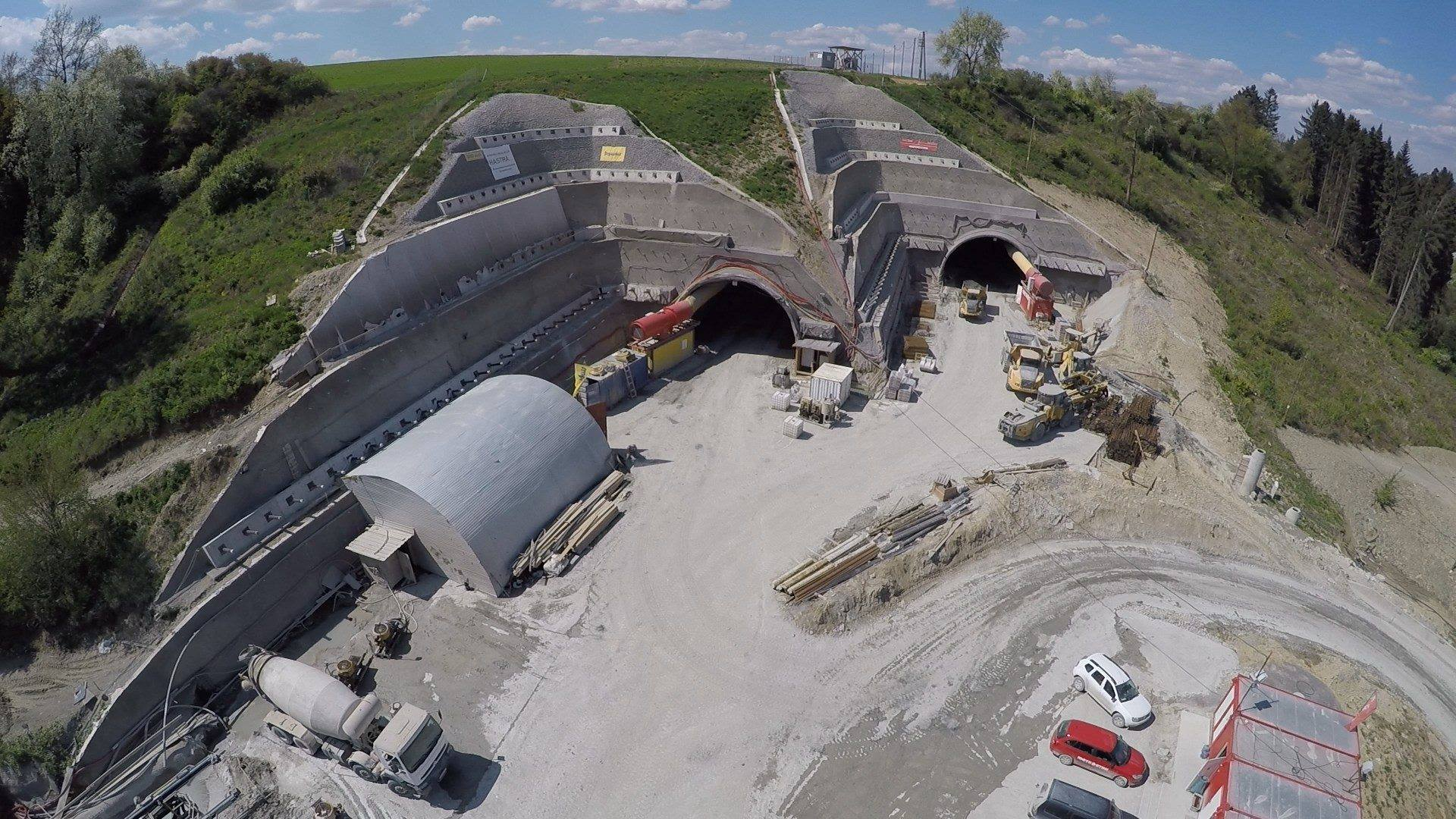 zilina